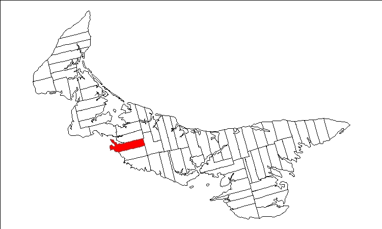 Public domain map of Prince Edward Island created by User:Plasma east with data courtesy of Geogratis, modified to show townships. Released under GFDL (self).